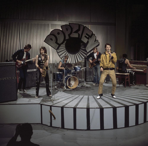 ABBA, rop/rock program 'Popzien' on Dutch television